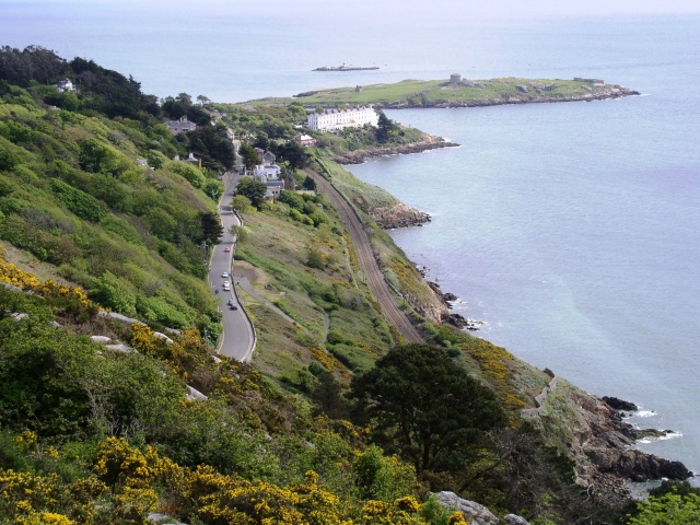 Vico Road from Killiney Hill Looking towards Sorrento Terrace and Dalkey Island.